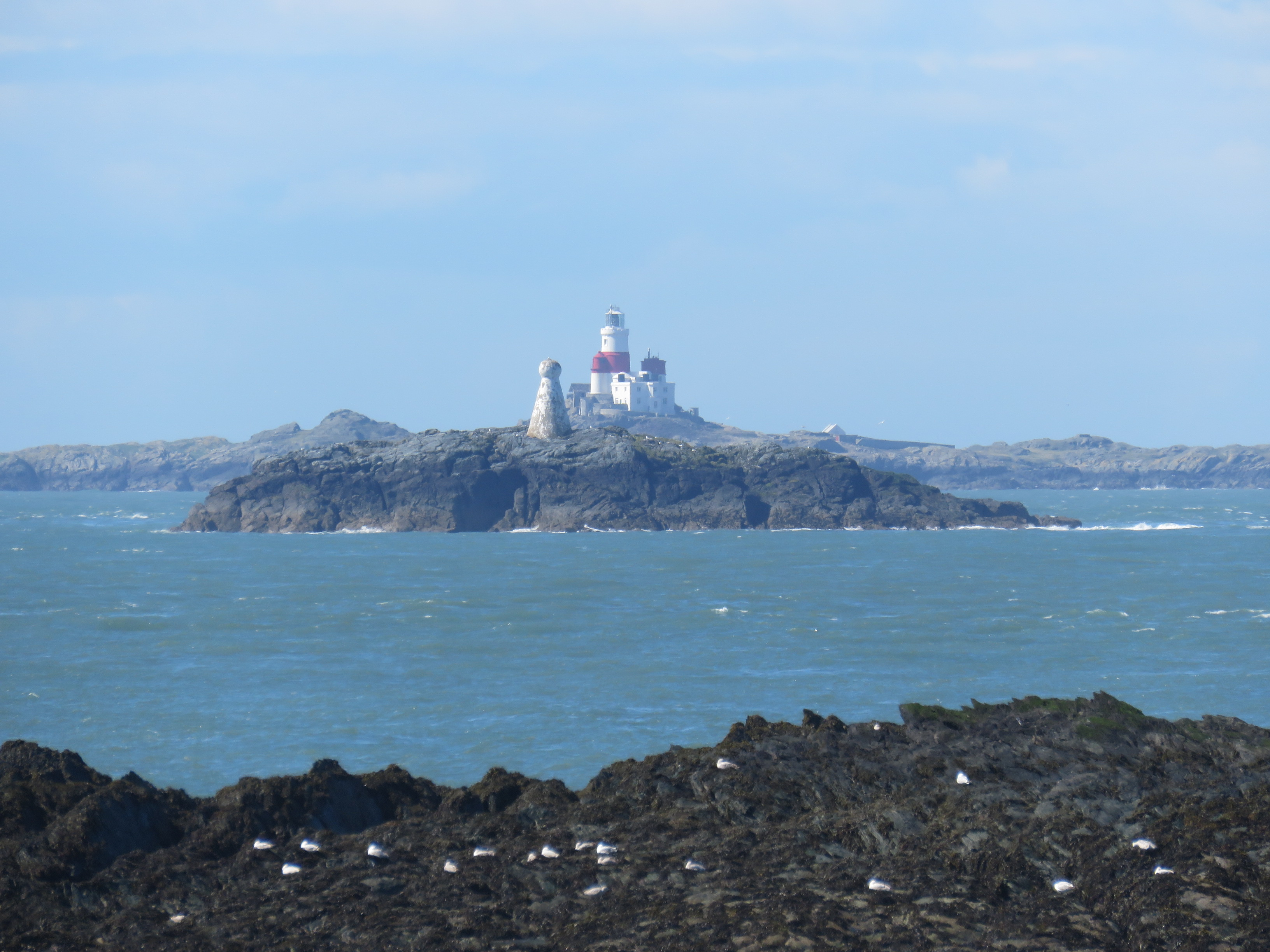 Skerries and lighthouse, North Wales